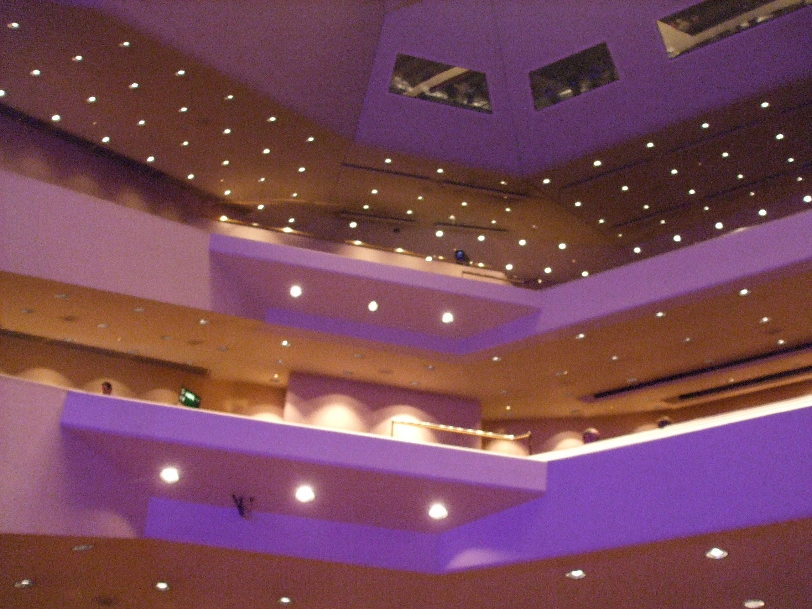 interior, Royal Concert Hall, Nottingham